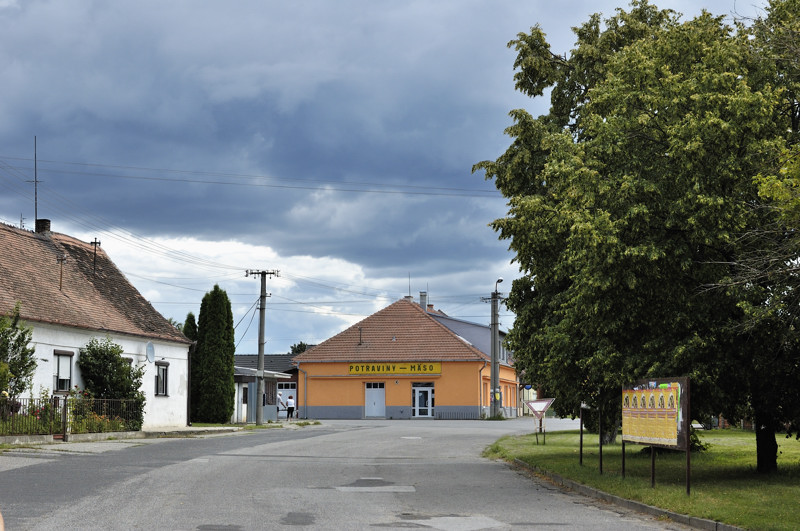 Brodské